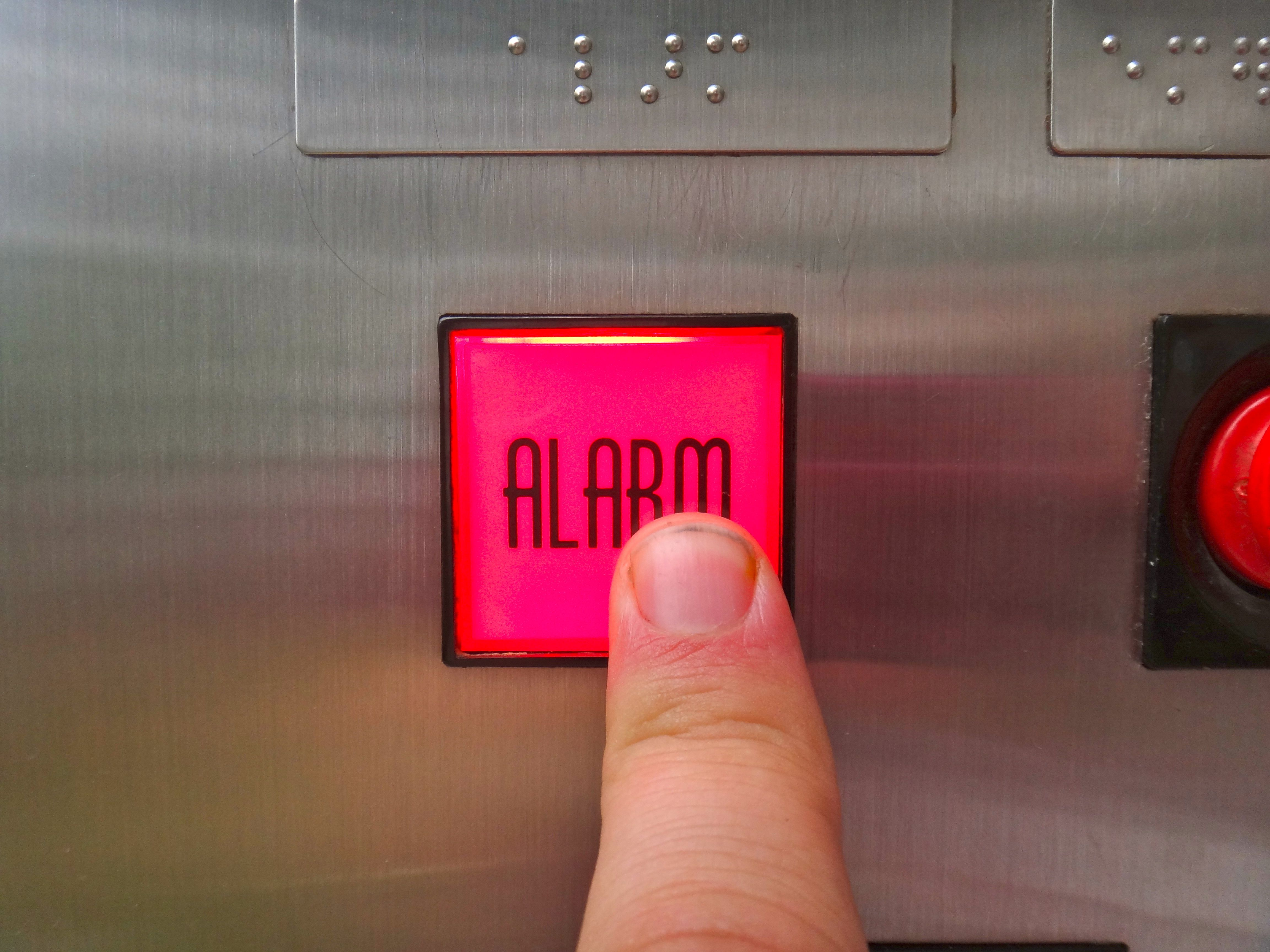 This is using the emergency call button in an elevator. Notice how there is braille for blind people and the button glows to alert a deaf person that the bell is ringing and the call is being placed